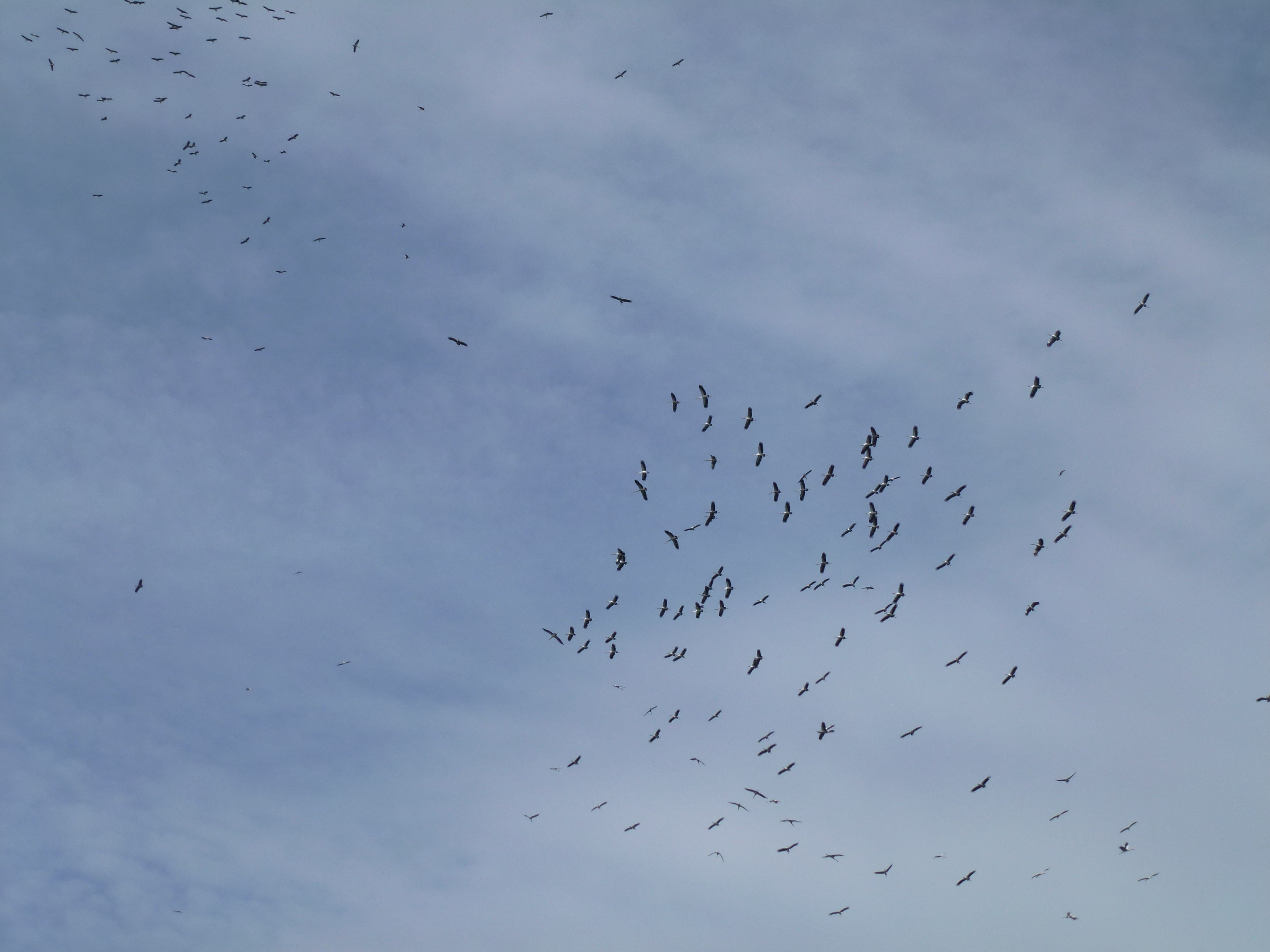 Two groups of Anastomus oscitans in Tram Chim National Park, Dong Thap Province, Vietnam